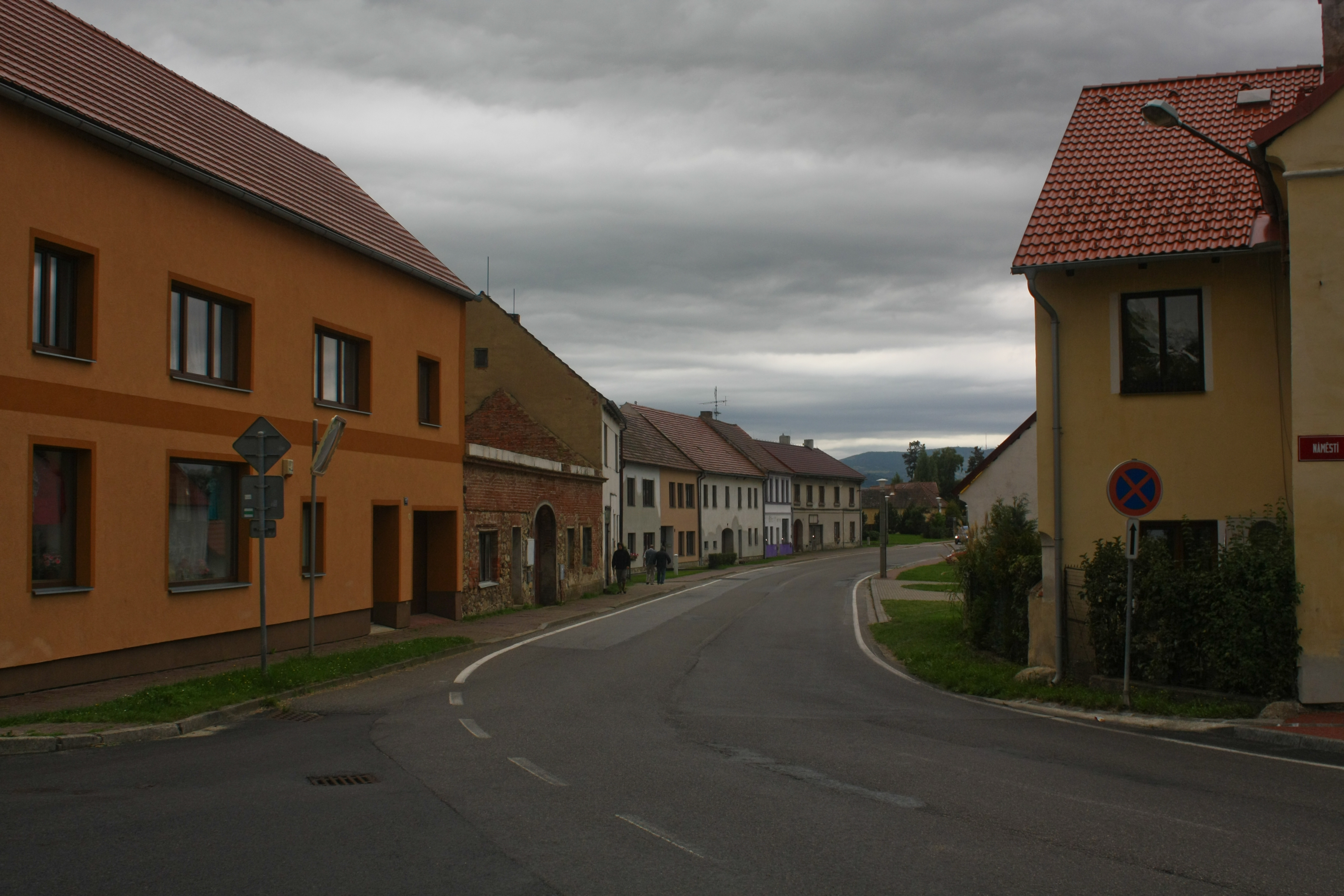 Kamenný Újezd, České Budějovice District, Czech Republic Object location48° 53′ 53″ N, 14° 26′ 48″ E This photograph was taken within the scope of the Czech 'Photo Workshops' grant.